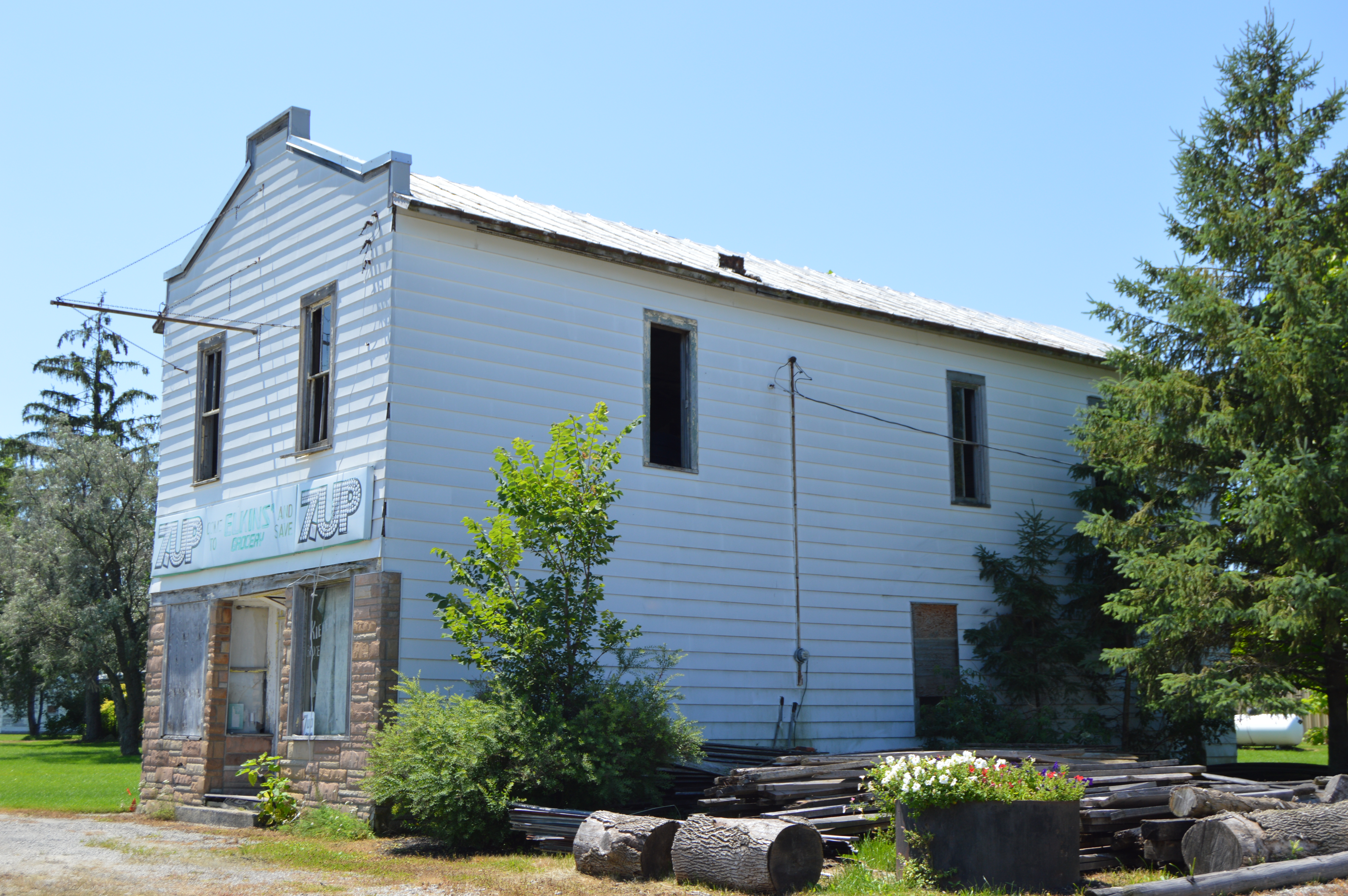 An old general store and Pure Oil gas station on State Route 15 in Kieferville, Ohio, United States.